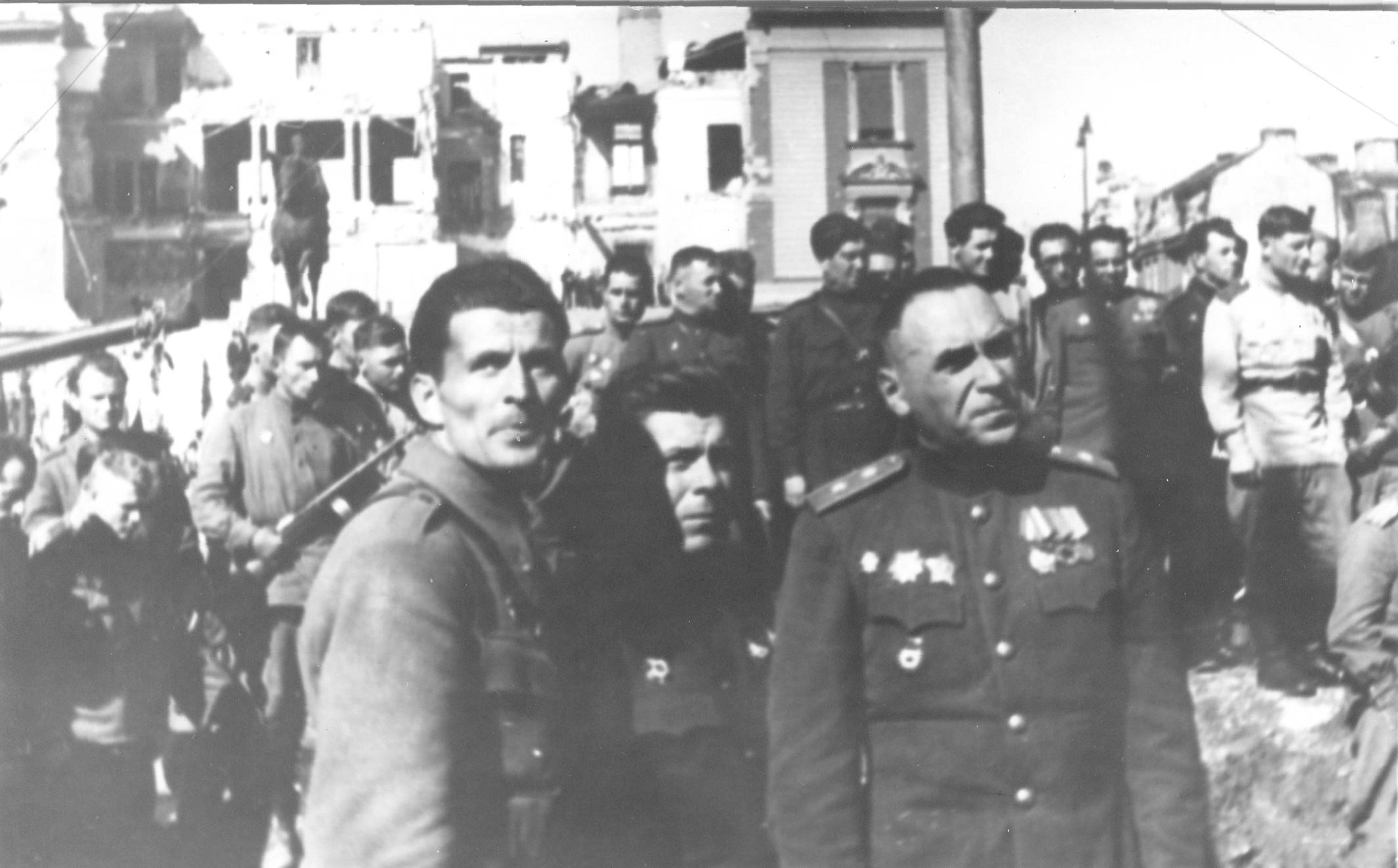 General Peko Dapčević and general Vladimir Ždanov in liberated Belgrade, 1944.